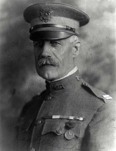 William C. Bryan, Hospital Steward, United States Army, awarded the Medal of Honor for actions in the Indian Wars